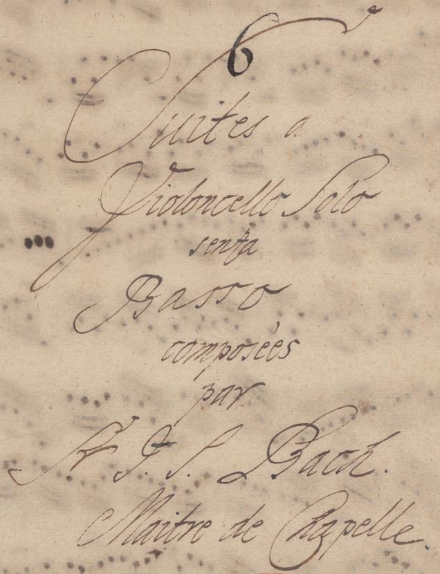 Title page of Anna Magdalena Bach's manuscript. Dated before 1750, the author (Anna Magdalena Bach) is dead more than 70 years ago. So it is in public domain.